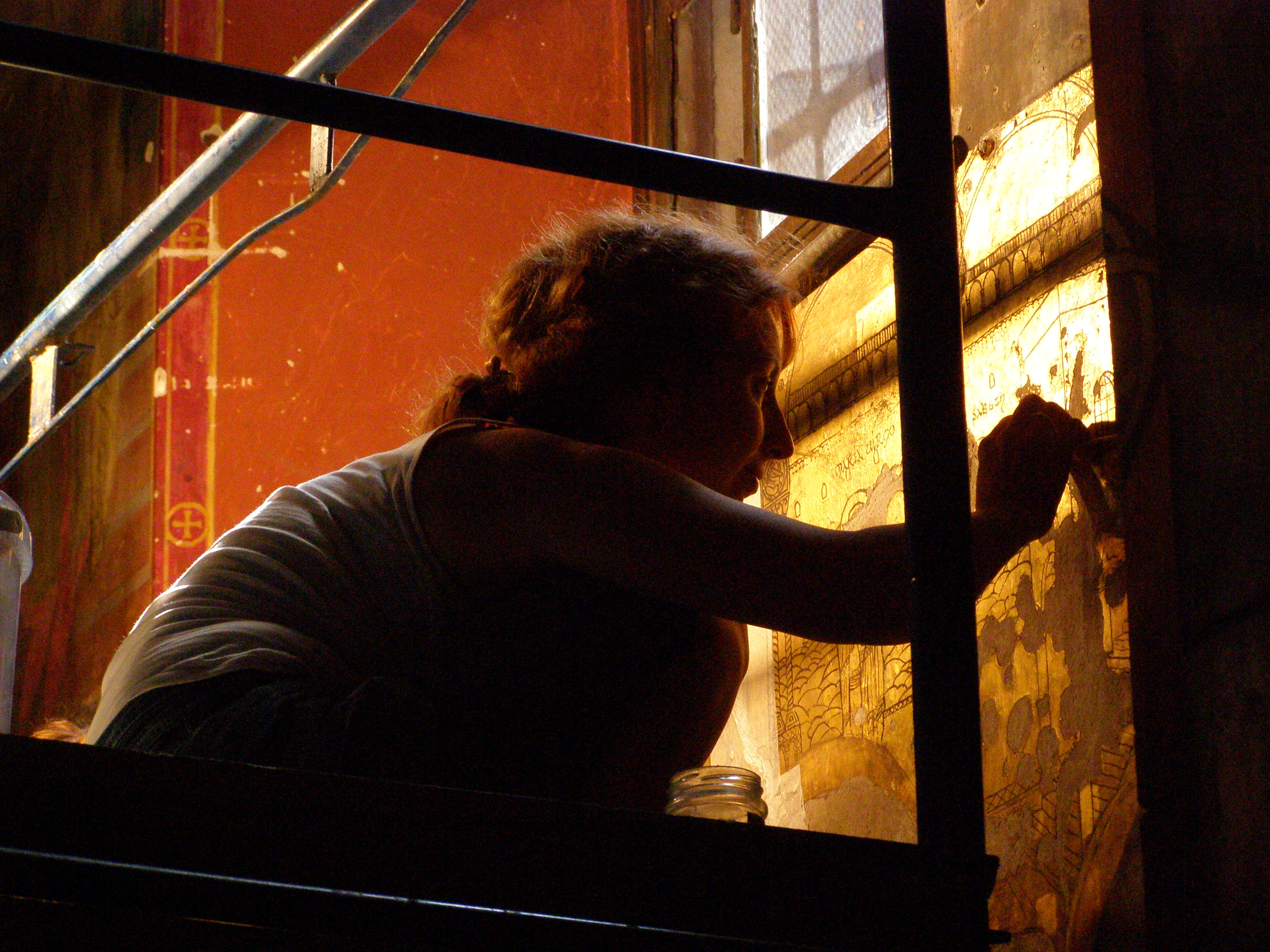 Lviv, Armenian church